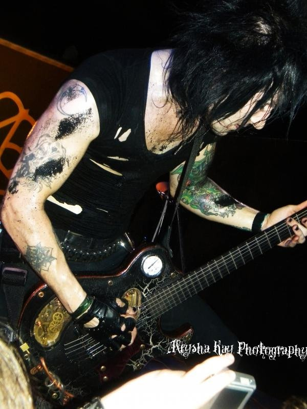 Black Veil Brides in Cleveland